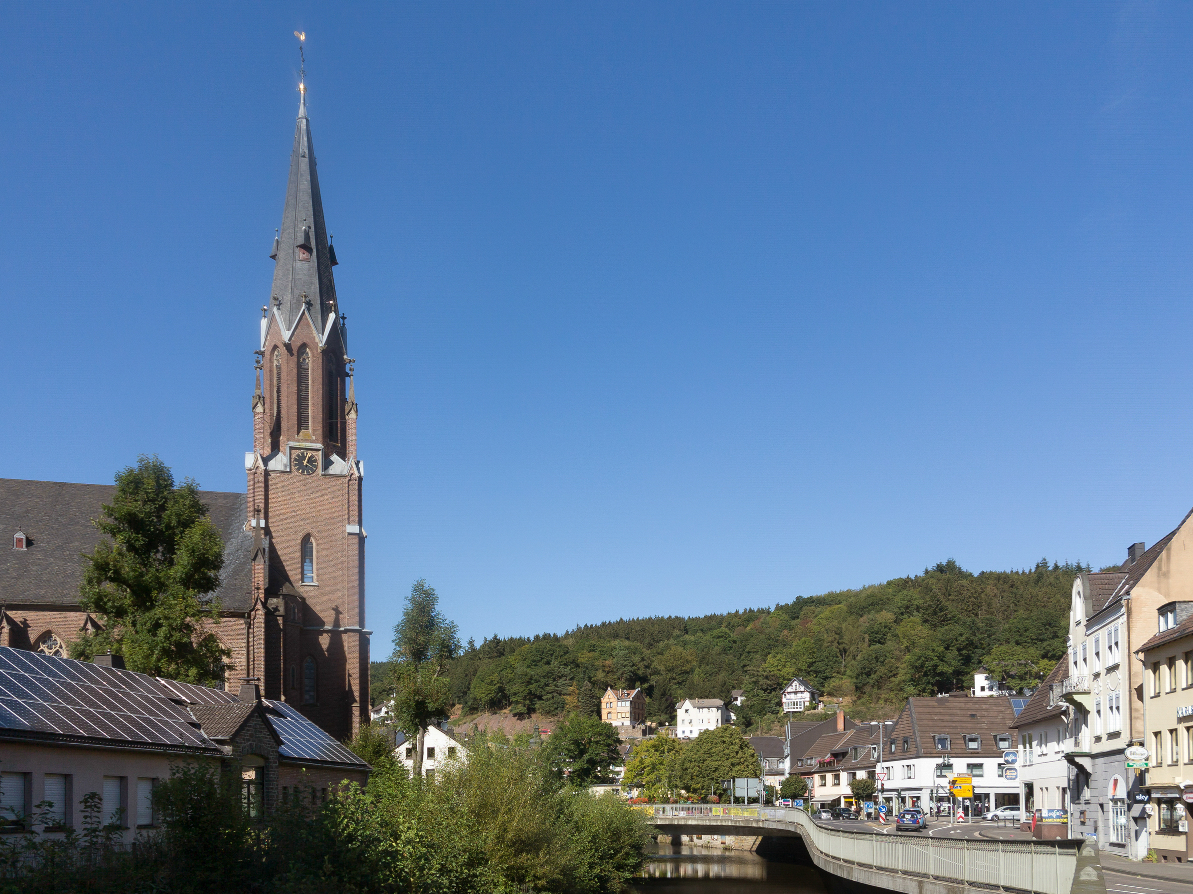 Gemünd, church - die Sankt Nikolaus KircheThis is a photograph of an architectural monument., no. 75